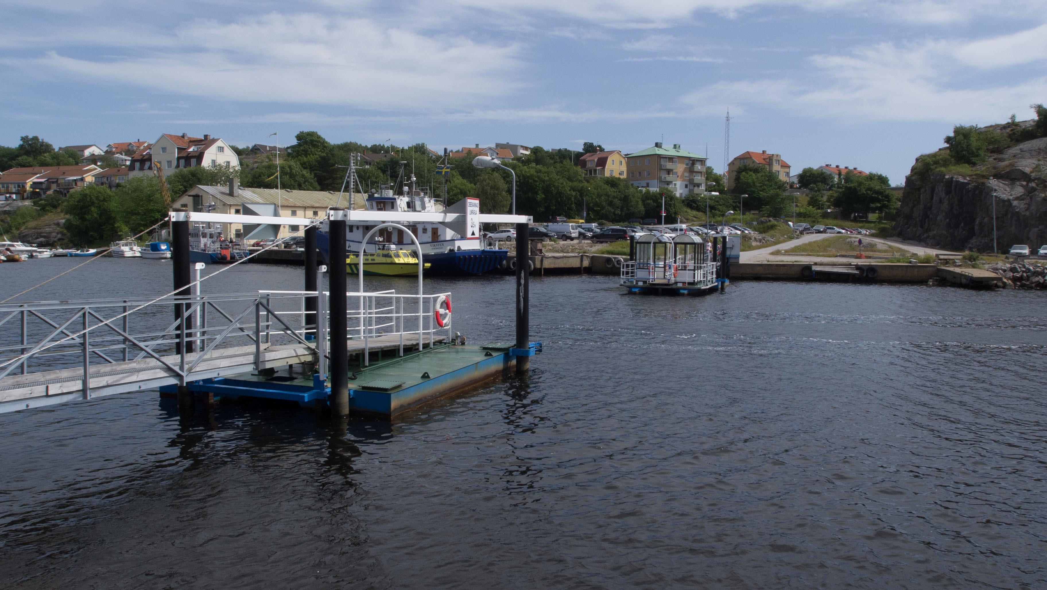 Cable Ferry